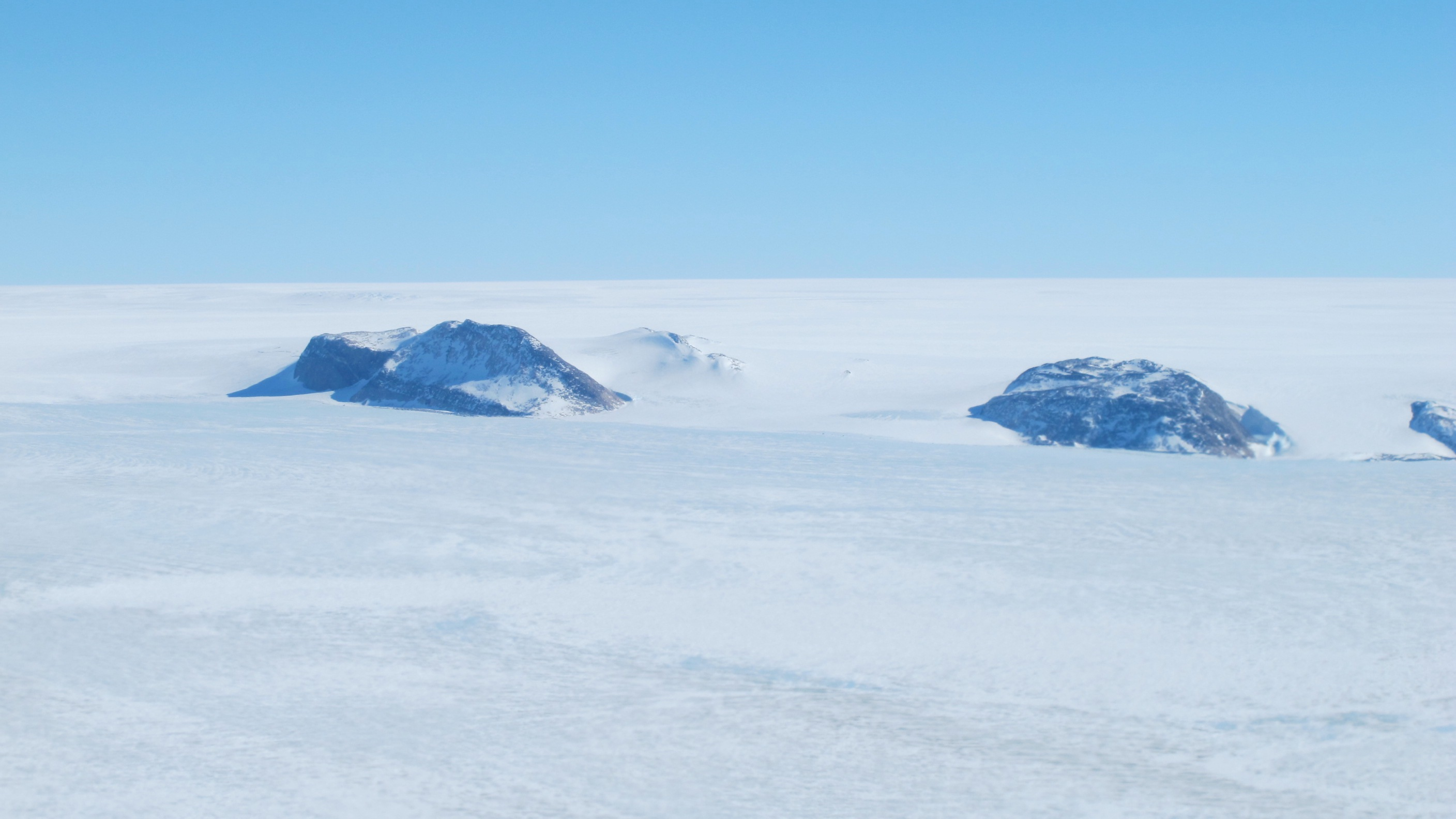 Nunataks in the western portion of the Greenland ice sheet seen from the NASA P-3B during an IceBridge survey of southwestern Greenland on Apr. 8, 2013. Nunataks are areas of exposed rock in an ice sheet such as ridges or mountain peaks. These jagged rock formations are sometimes used as landmarks on an ice sheet.